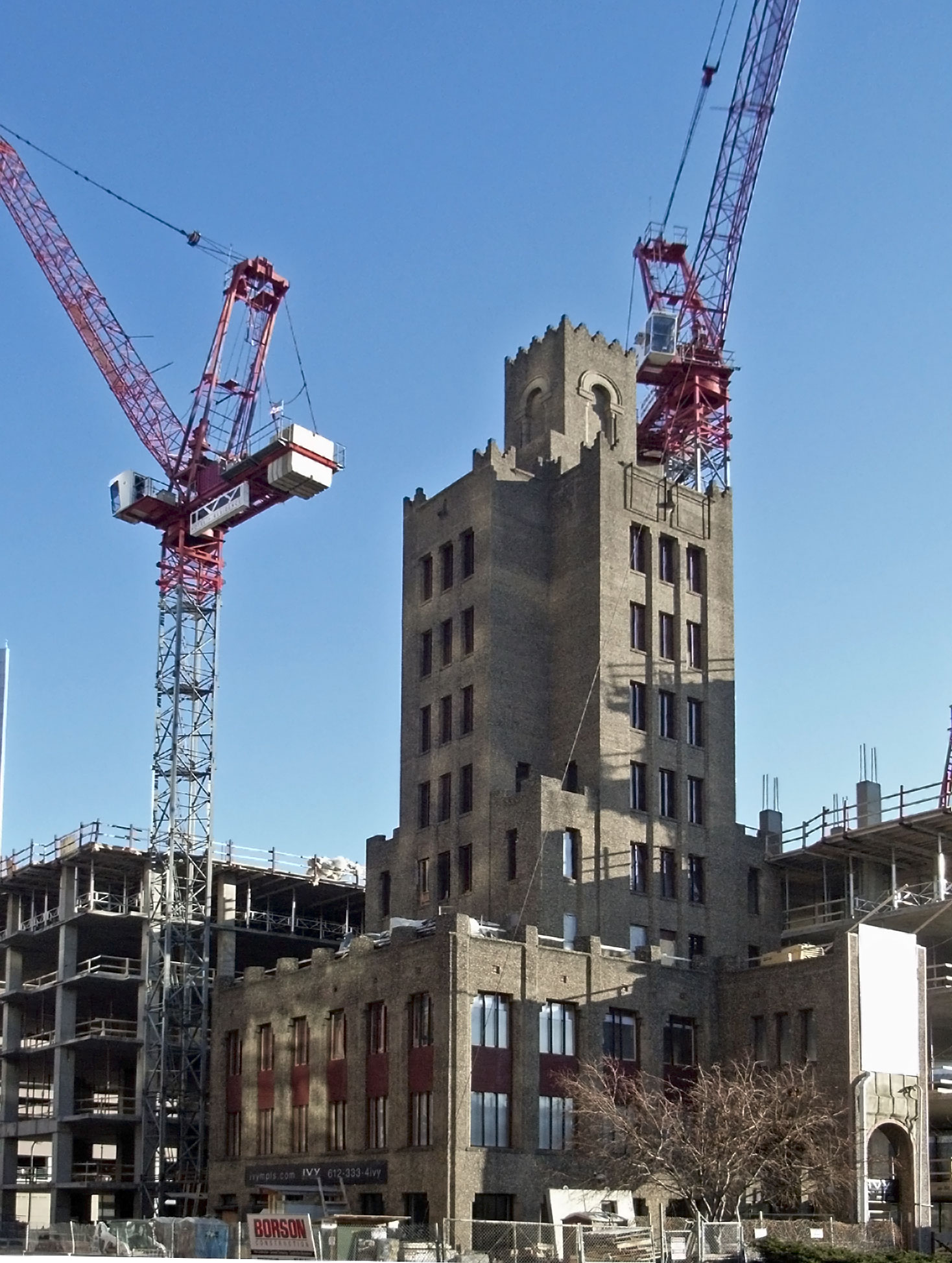 soon to be dwarfed by two hotel and residential towers, to be another Starwood (Luxury Collection).